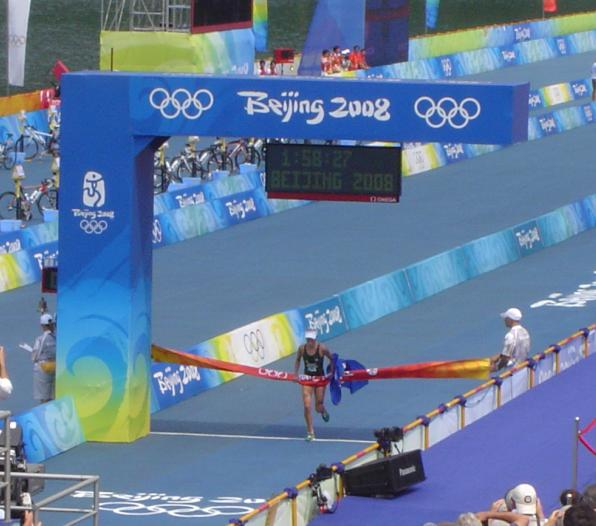 Emma Snowsill crossing the final line to win the gold medal in the women's triathlon at the 2008 Summer Olympics.